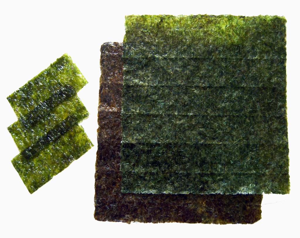 Nori, roasted sheets of seaweed used in Japanese cuisine for sushi. The smaller ones are already seasoned with sesame oil and spices.